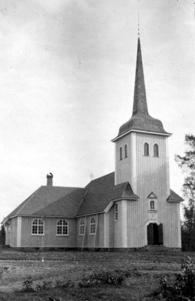 Nyskoga church seen towards the north-west